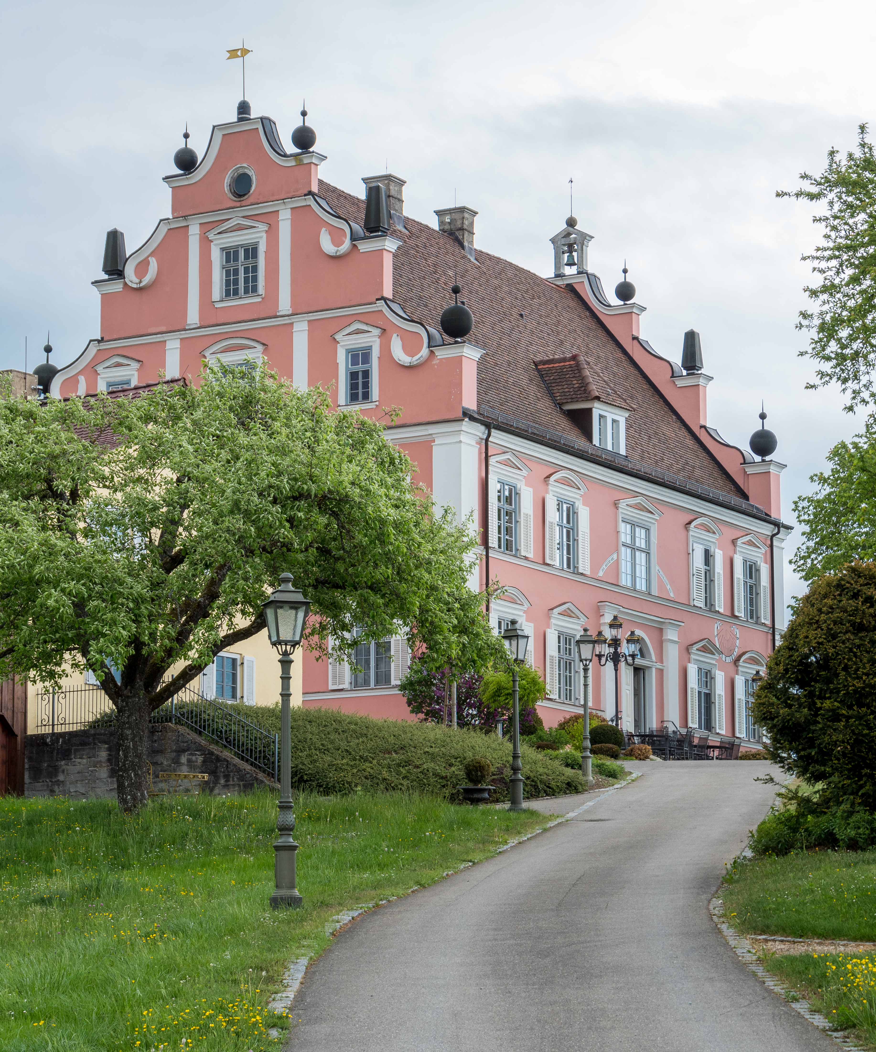 Freudental castle (Allensbach, District of Constance, Germany)